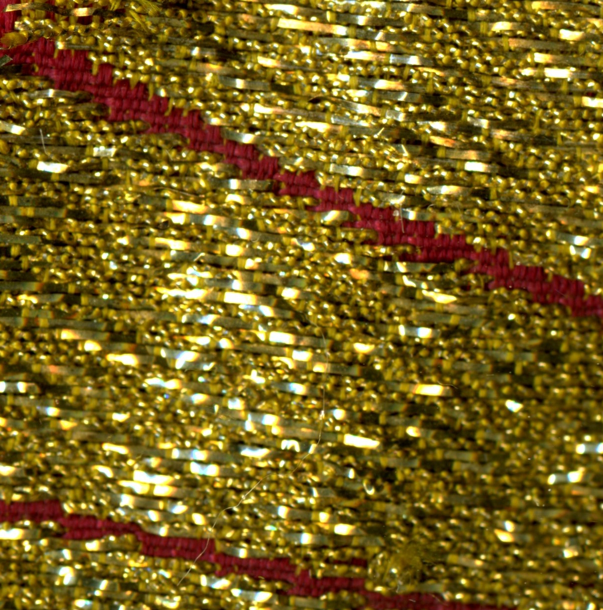 Golden cloth, woven with golden strips and crinkle cordonnet